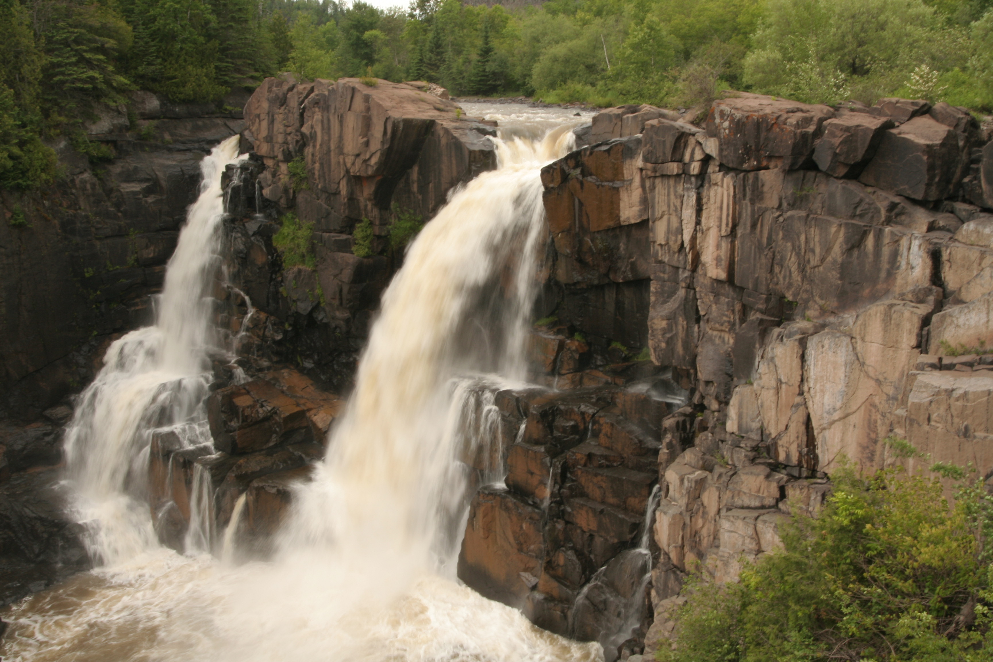 The following is the author's description of the photograph quoted directly from the photograph's Flickr page."This waterfall is on the boundary between Canada and the U.S. and parks offer access from both sides. (Just try avoiding customs by that route.) From the Minnesota side, these are the highest falls in the state at 120 feet. Grand Portage a nine-mile detour around the falls on the Pigeon River, was a thoroughfare for canoe travelers, including fur traders, for centuries. These pictures are taken from the Canada side. "